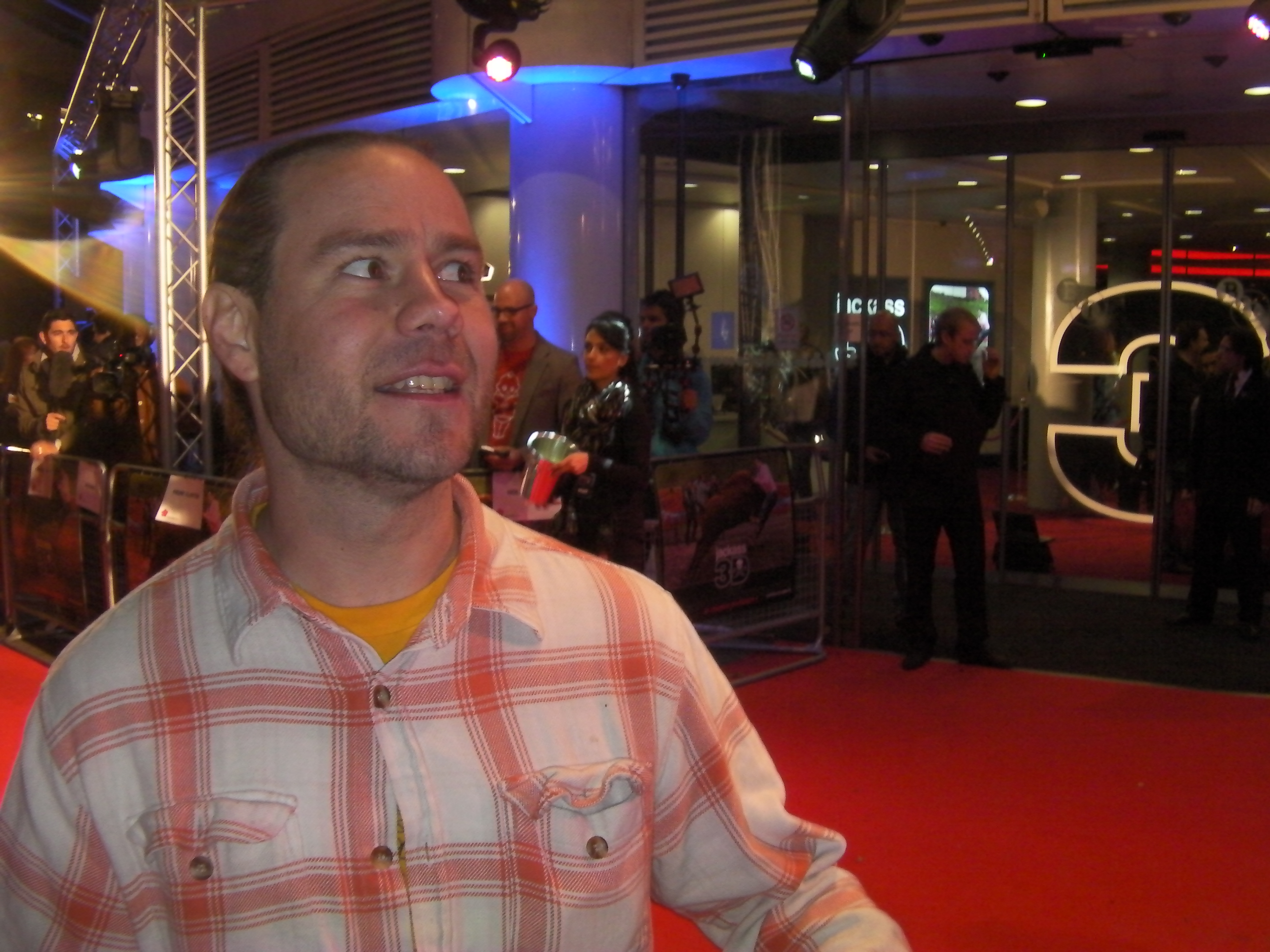 Chris Pontius at Jackass 3D London Premiere 2nd November 2010.